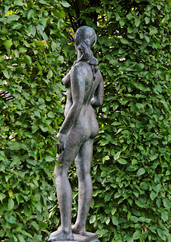 Sculpture "Eva" by Johan Limpers in Haarlem (NL)